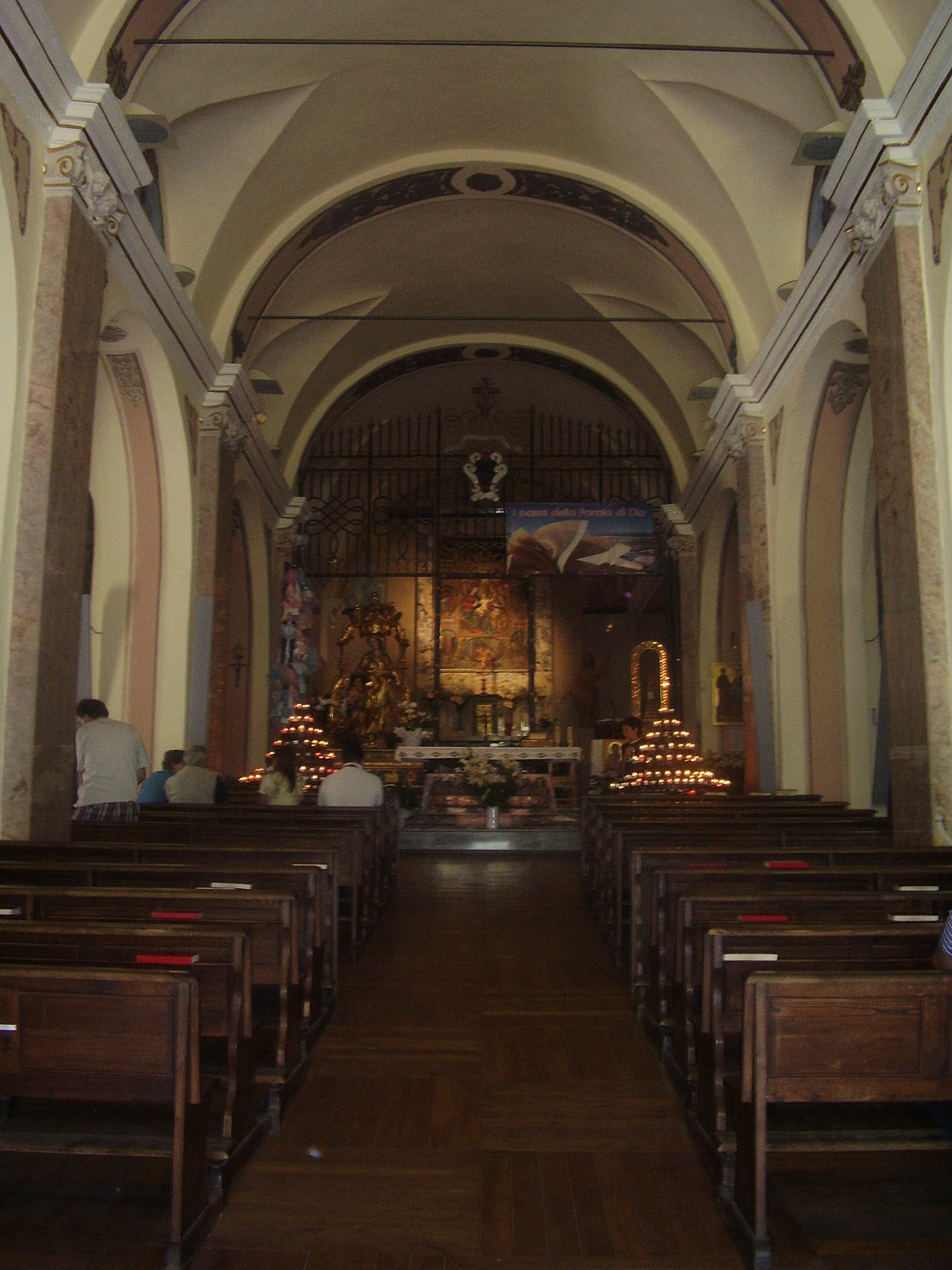 Sant'Anna di Vinadio Sanctuary (inside)